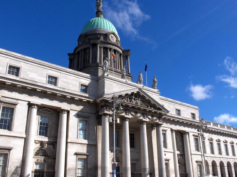 Dublin Custom House.